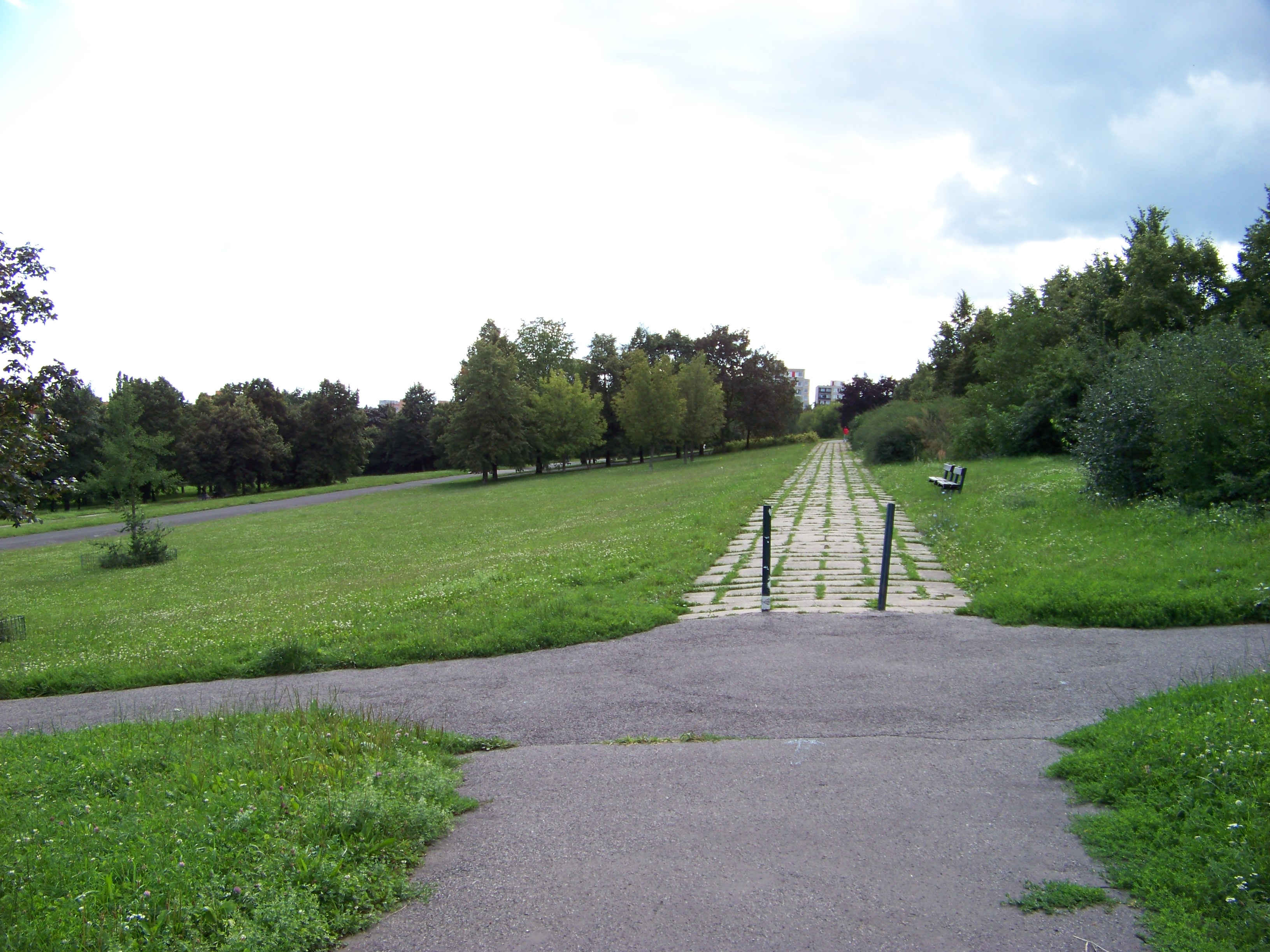 Prague-Malešice, the Czech Republic. Malešice Park.